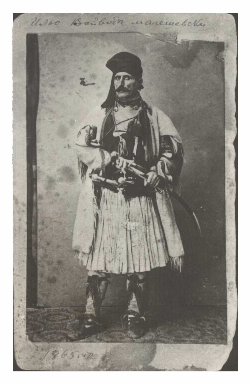 Ilyo Voivoda. Photo by Anastas Karastoyanov, Belgrad, 1867